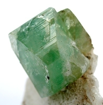 Hydroxylherderite, Albite Locality: Chhappu, Braldu Valley, Skardu District, Baltistan, Northern Areas, Pakistan (Locality at ) Size: .6 x 3.5 x 2.3 cm. Rare green hydroxylherderite from a small find, or series of small finds, that has been out now for about 7 years. Very glassy, translucent, 3-dimensional crystal of approximately 2 cm perched on crystallized albite. Ex. Laura and Stevia Thompson Collection.